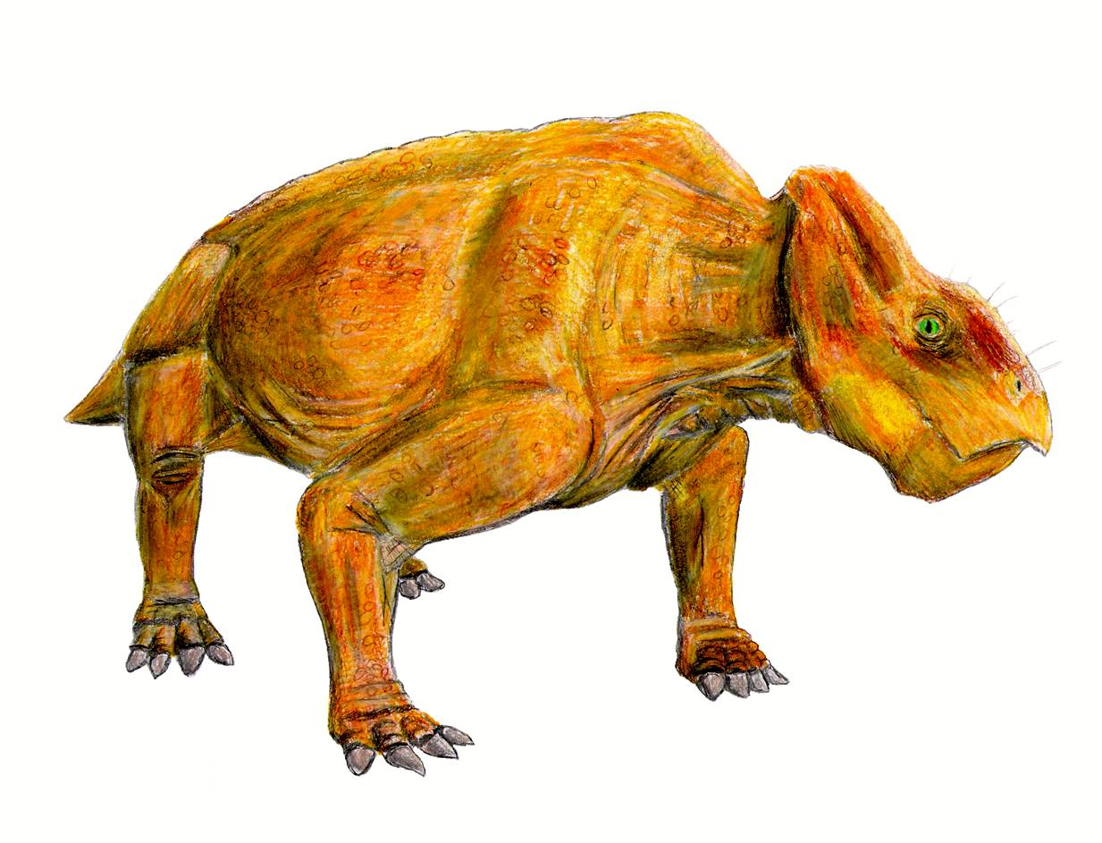 Life restoration of Ischigualastia jenseni.